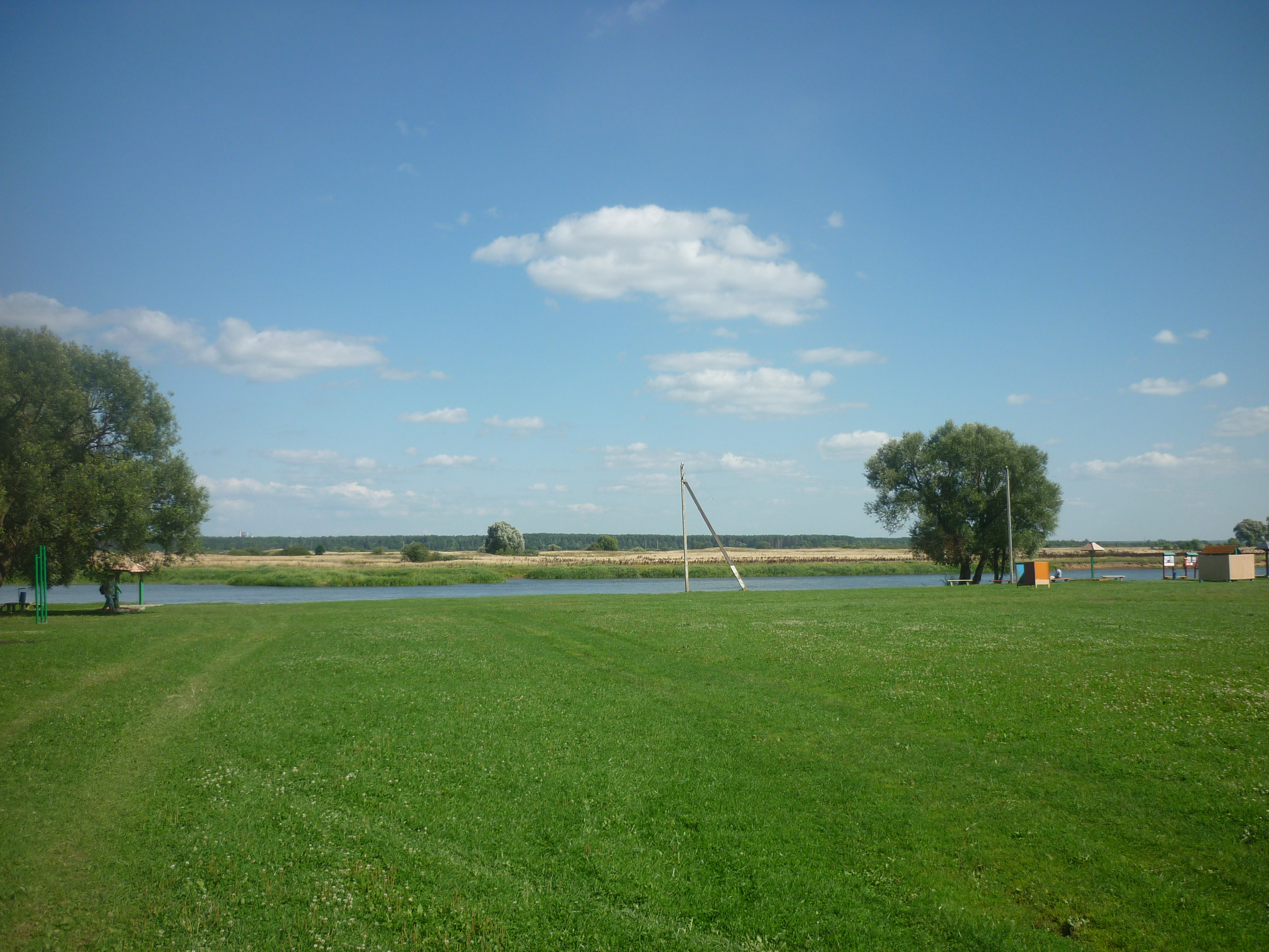 City beach Krichev / Krychaw (Belarus). Sozh River